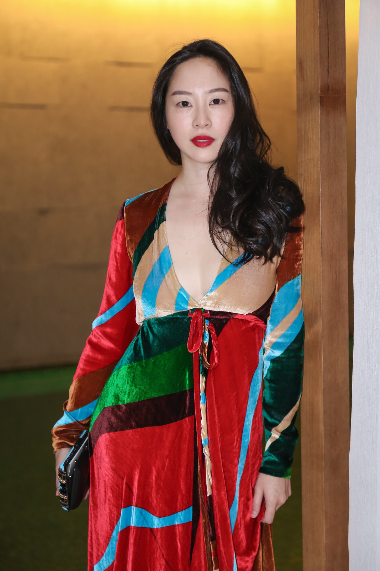 Sara at Bvlgari Hotel Opening